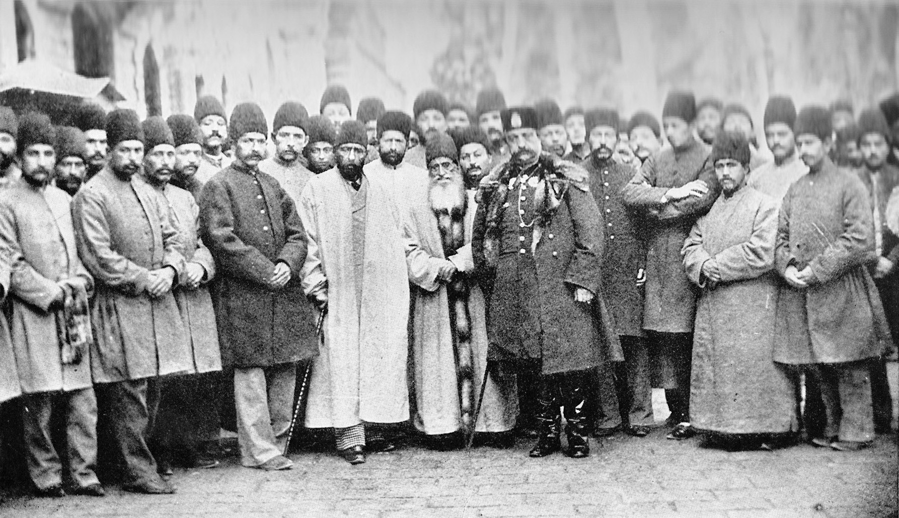 Naser al-Din Shah Qajar and his ministers